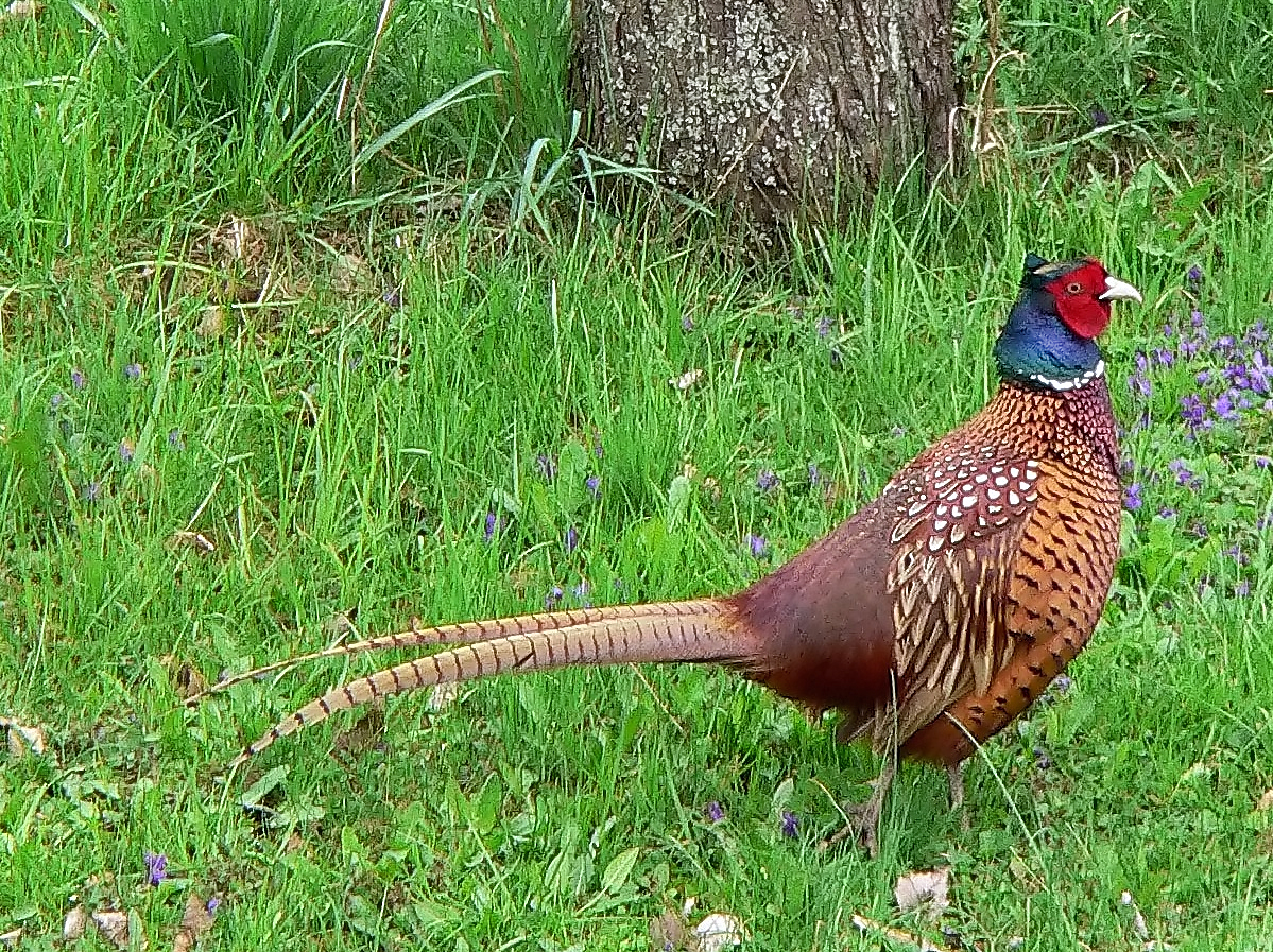 Common pheasant (feral, male)